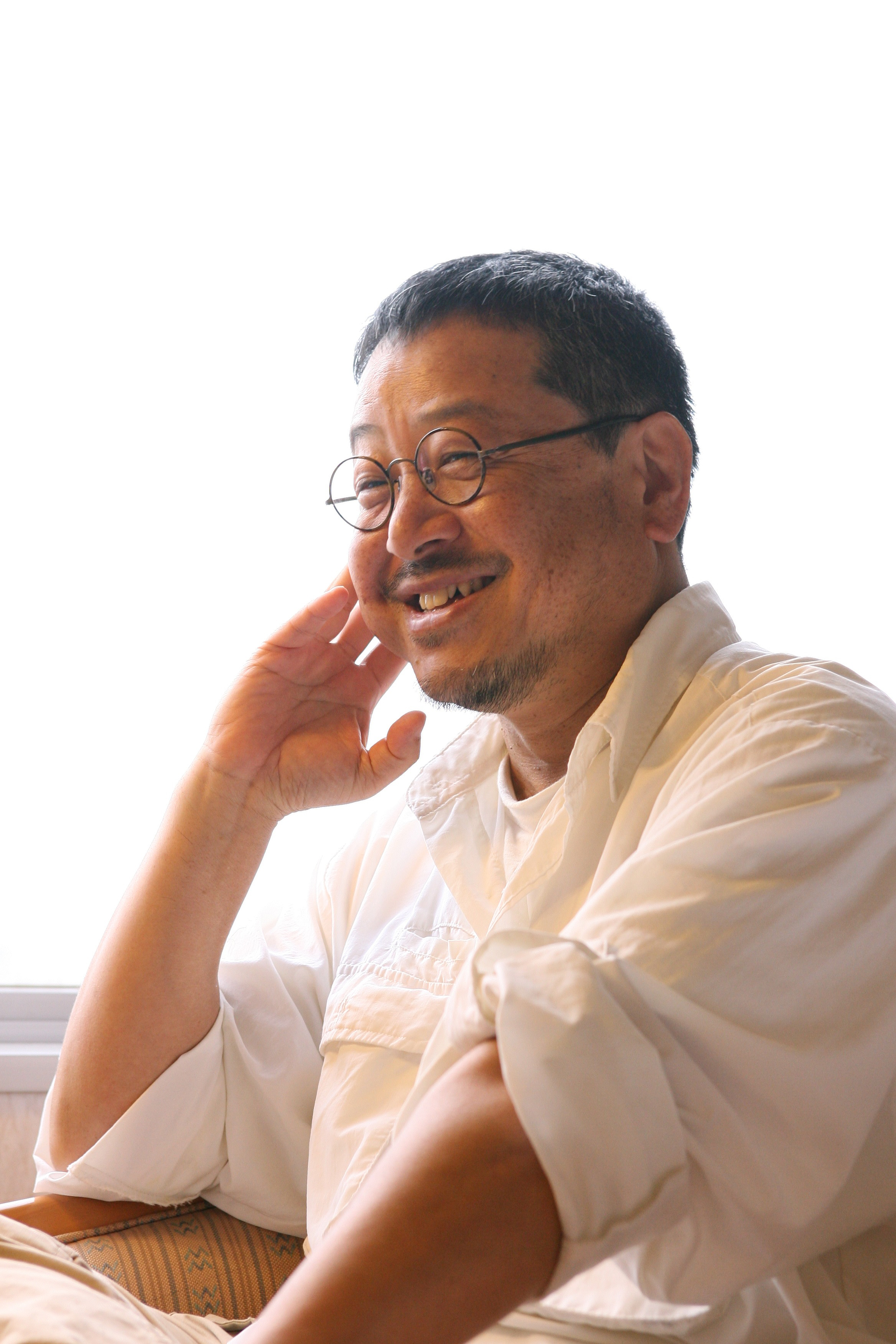 A photo of Baku Yumemakura, one of Japan's most important and successful modern writers.